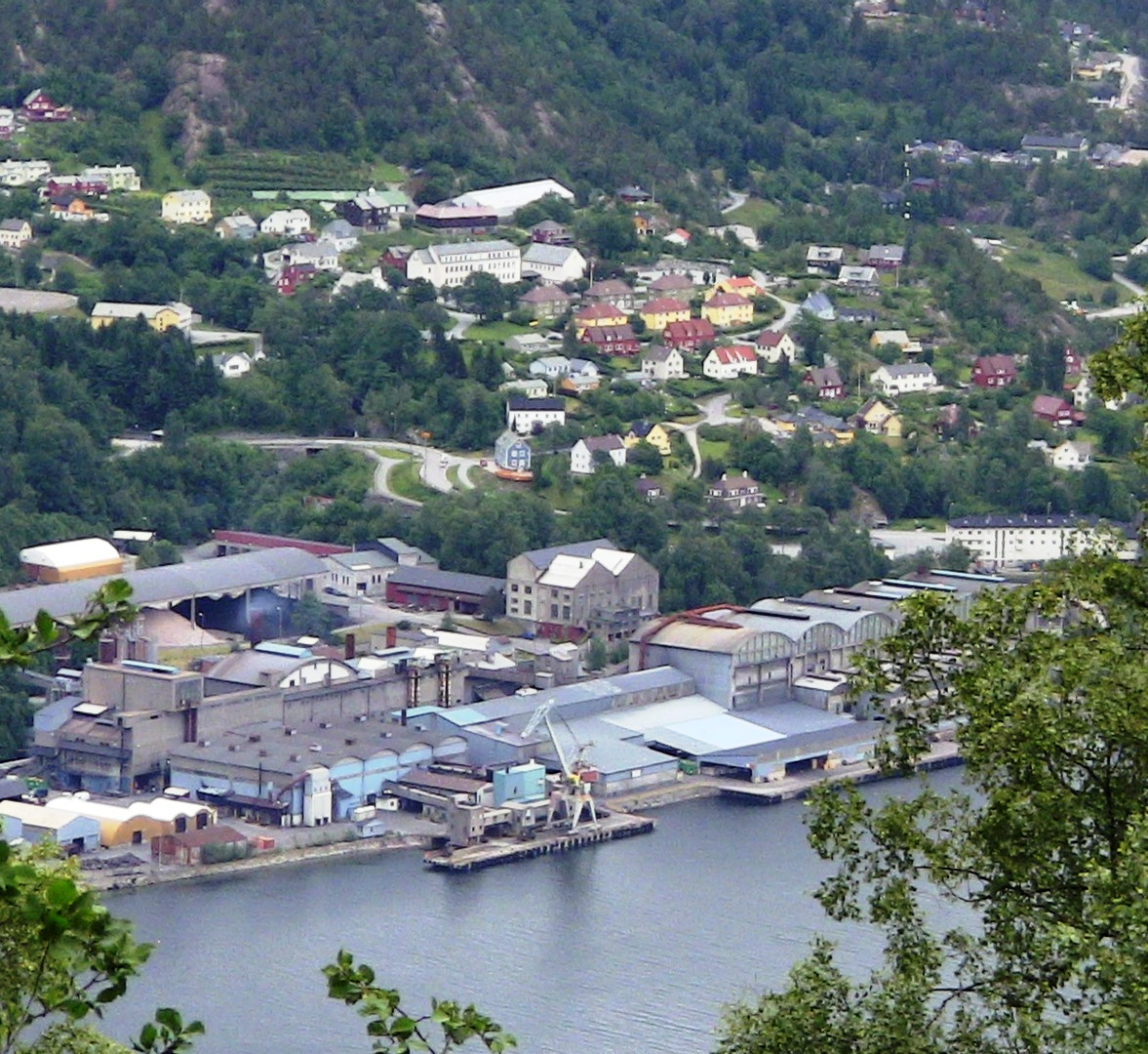 Picture of Indre Ålvik, with Bjølvefossen in the foreground, taken from the hillside in Vikedal.